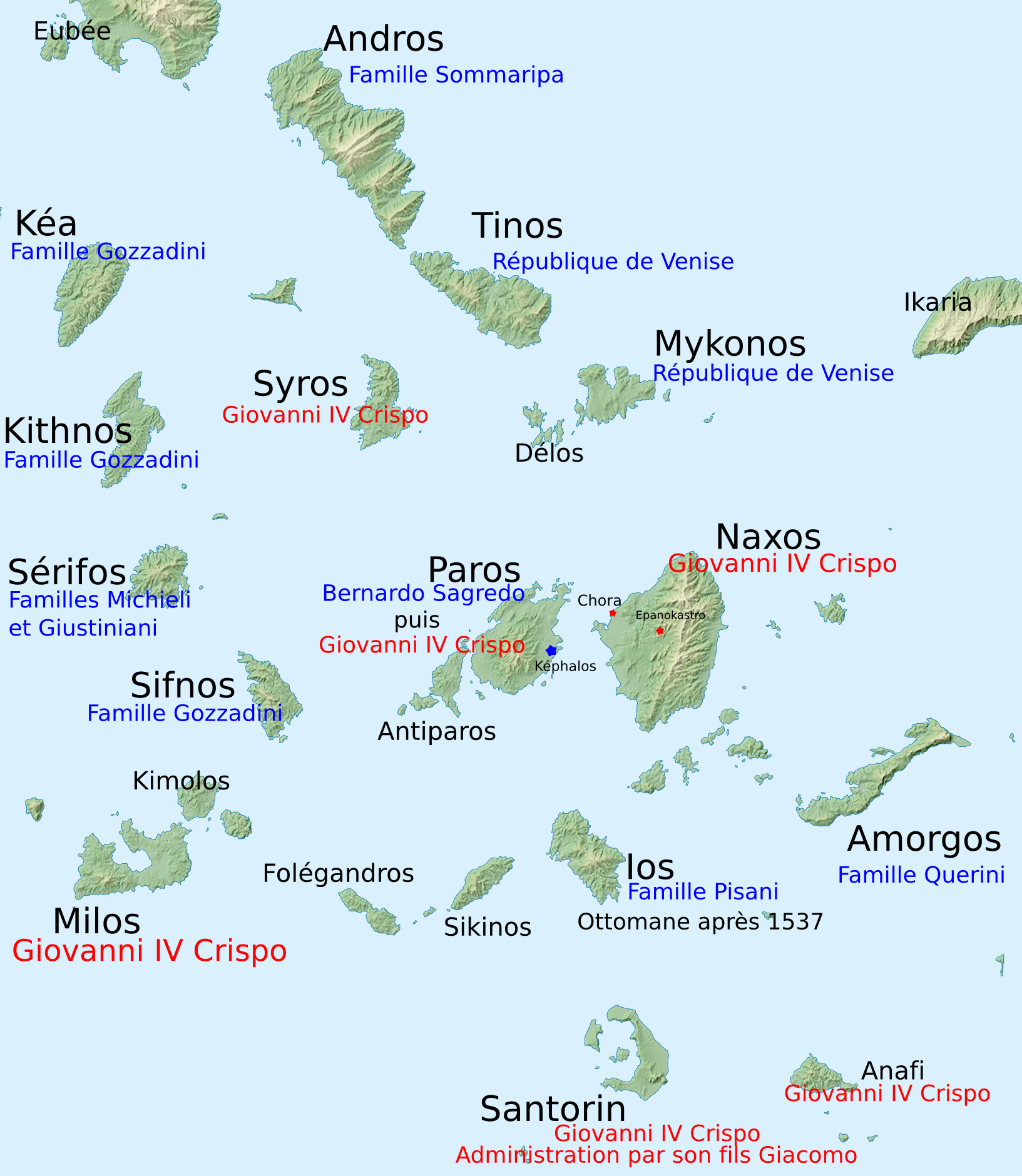 Duchy of Naxos and Princes in the Cyclades at the time of Giovanni IV Crispo (1510-1564)